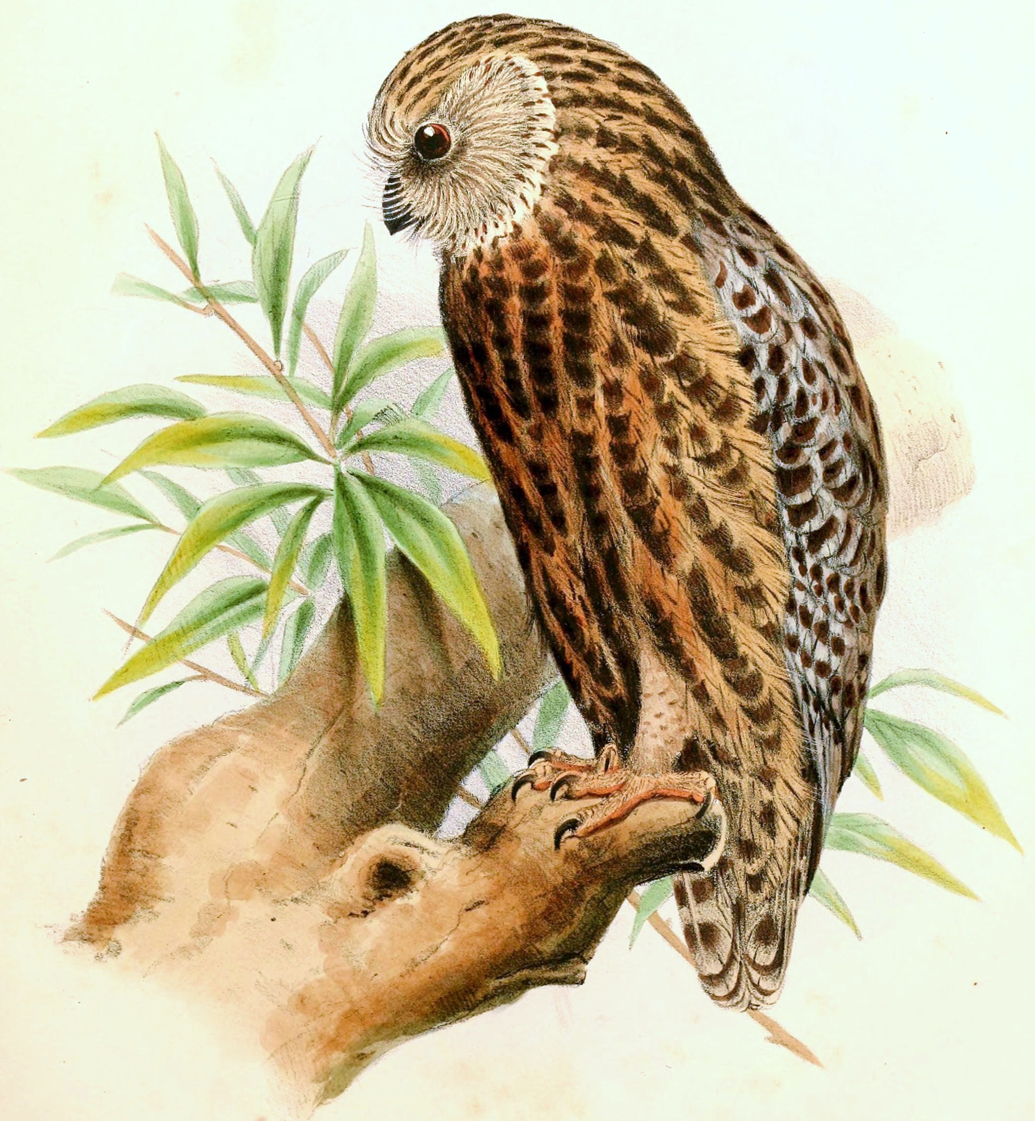 « Athene albifacies » = Sceloglaux albifacies (Laughing Owl)